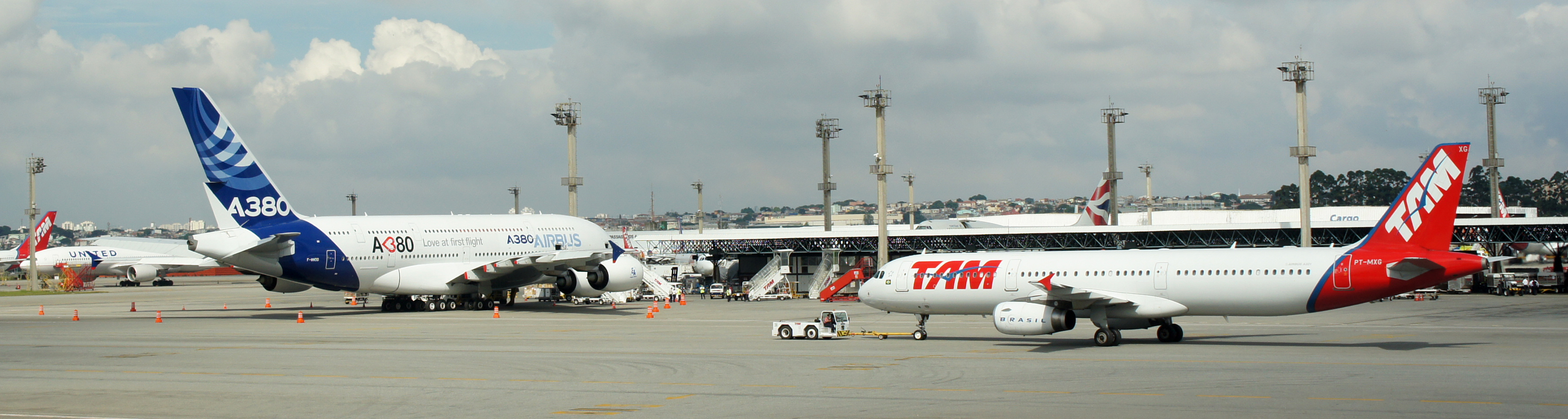 Airbus A380 and TAM's A321 (PT-MXG) at São Paulo-Guarulhos International Airport, Brazil